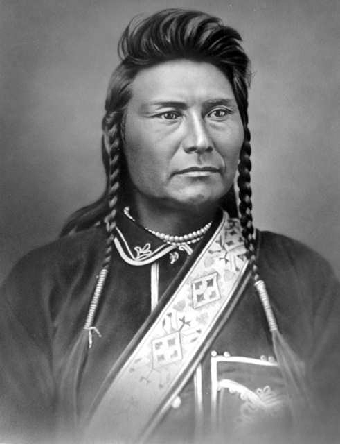 Photo of Joseph taken in November 1877 by O.S. Goff in Bismarck -- photo courtesy of Dr. James Brust